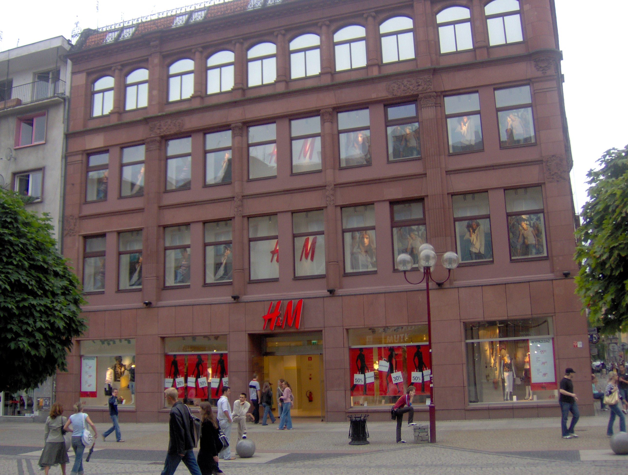 H&M - Swidnicka Street in Wroclaw